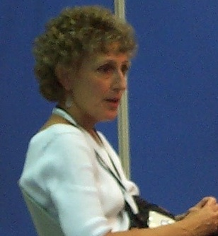 Maxine D. Brown at iGrid 2000, part of INET 2000 in Yokohama, Japan.